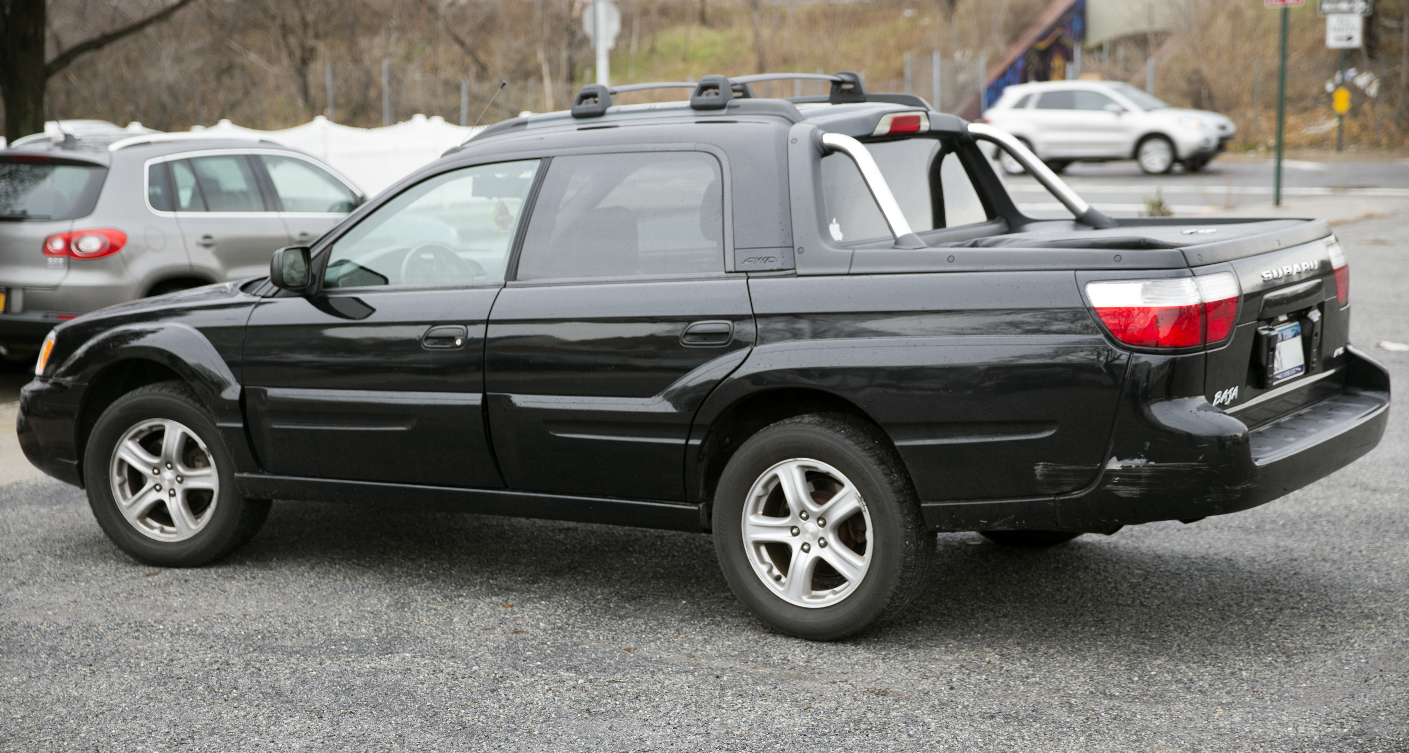 A 2006 Subaru Baja, all black.